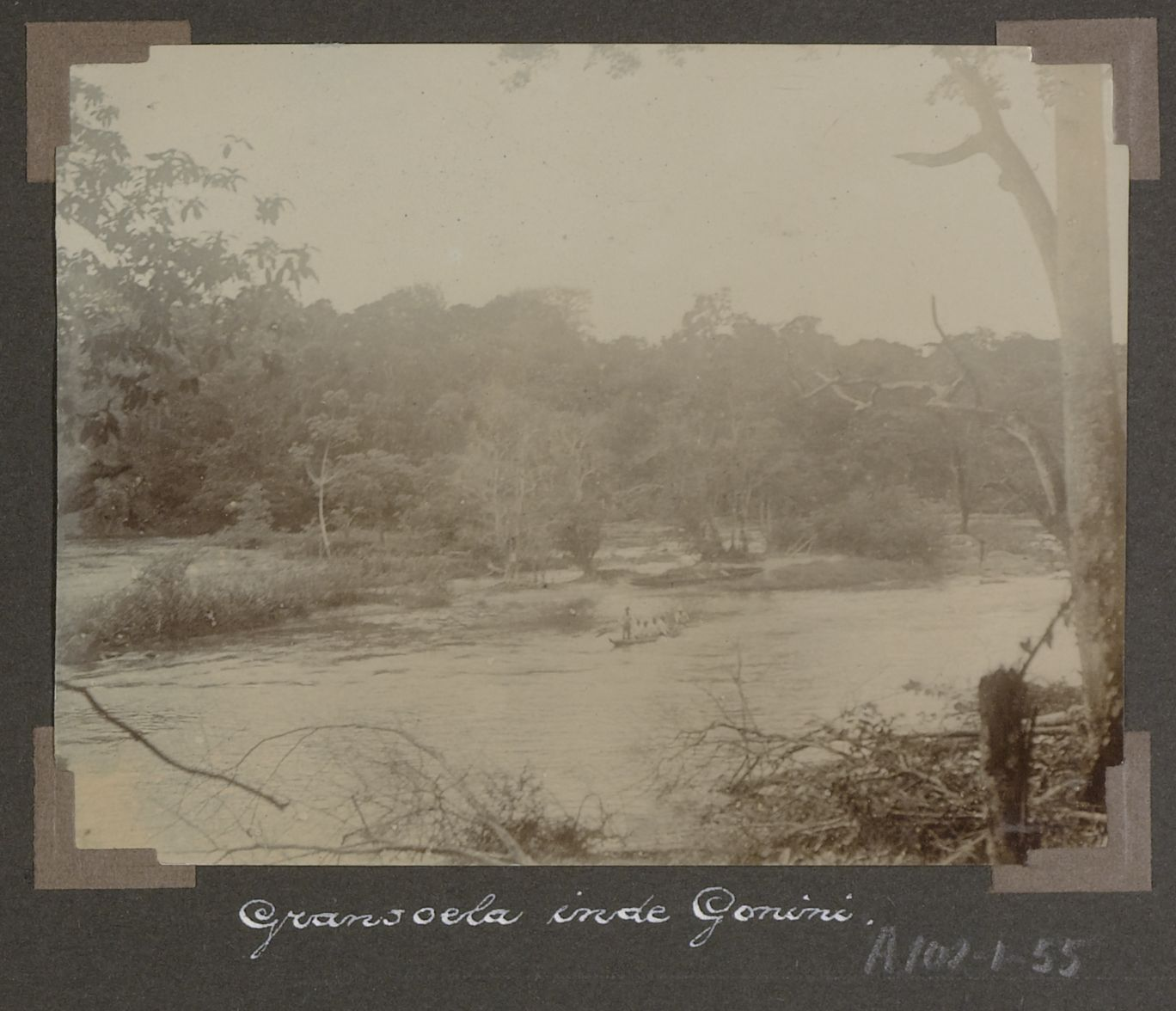 Photograph made during the Gonini Expedition in Suriname, 1903-1904. The Royal Dutch Geographical Society (KNAG) conducted an expedition to explore the surroundings of the Gonini River.